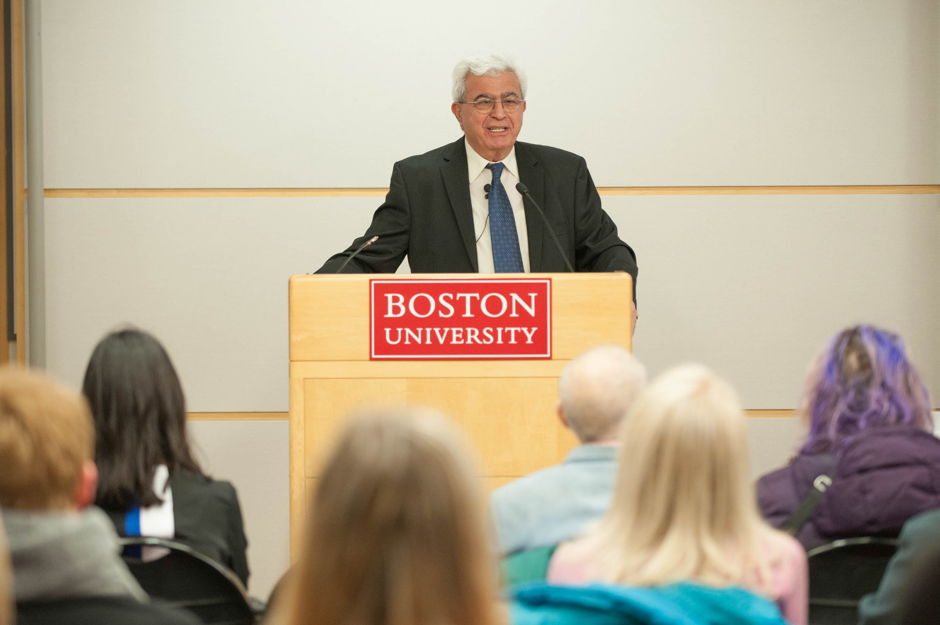 Europe Meets the Arab World with Elias Khoury and Jocelynne Cesari (25258026973).jpg